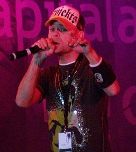 Brian Harvey 2007